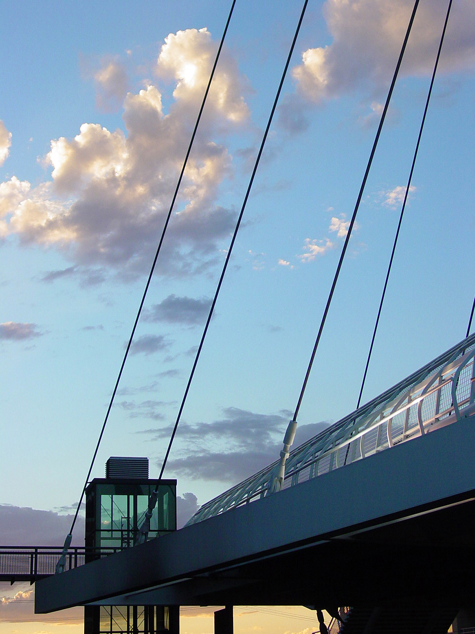 Denver Millennium Bridge, Deck with Glass-enclosed Elevator Dusk falls on the west end of Denver's Millennium Bridge. Photographer: Cher Skoubo